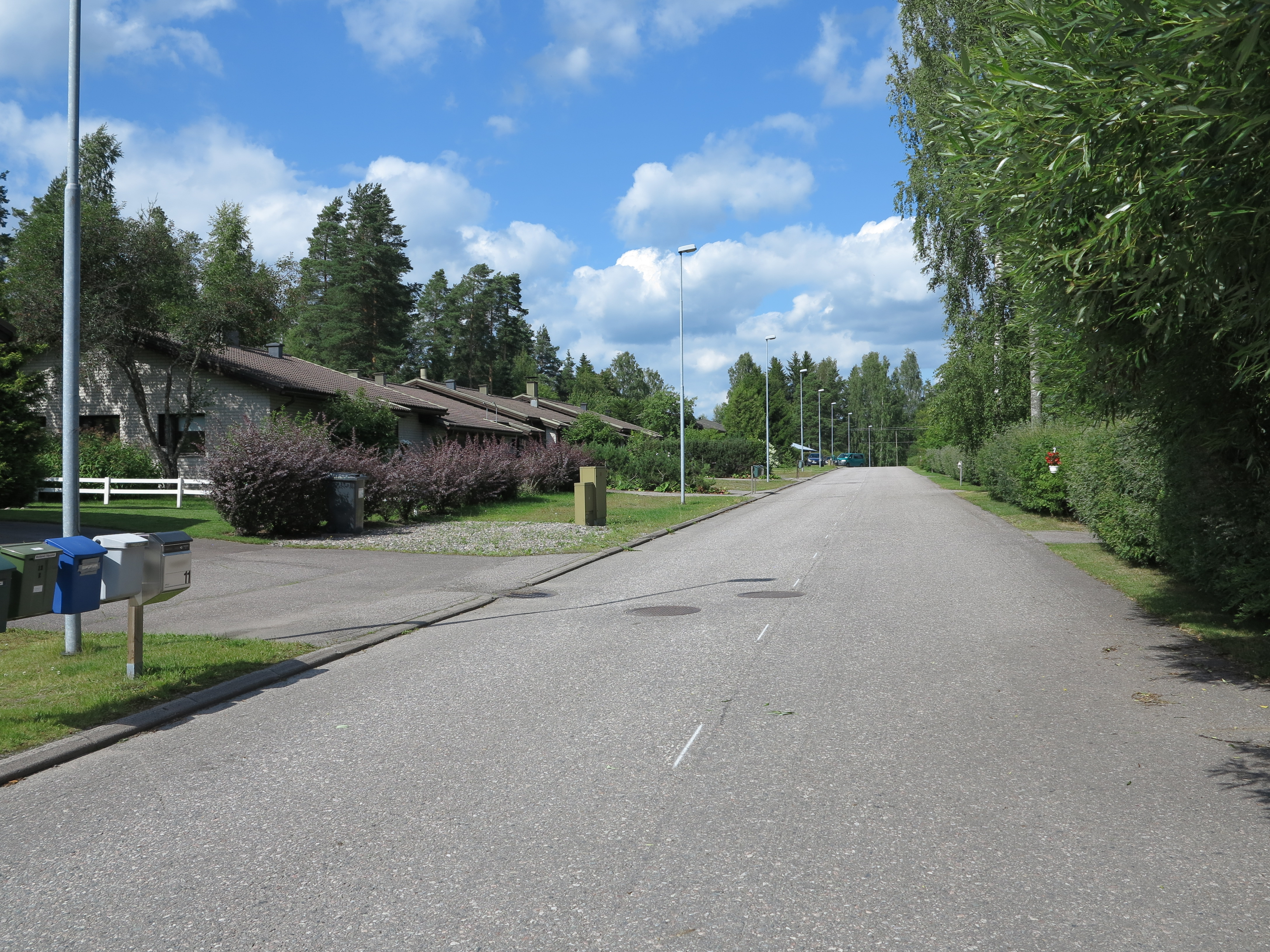 Tervastie in Heinola, Finland